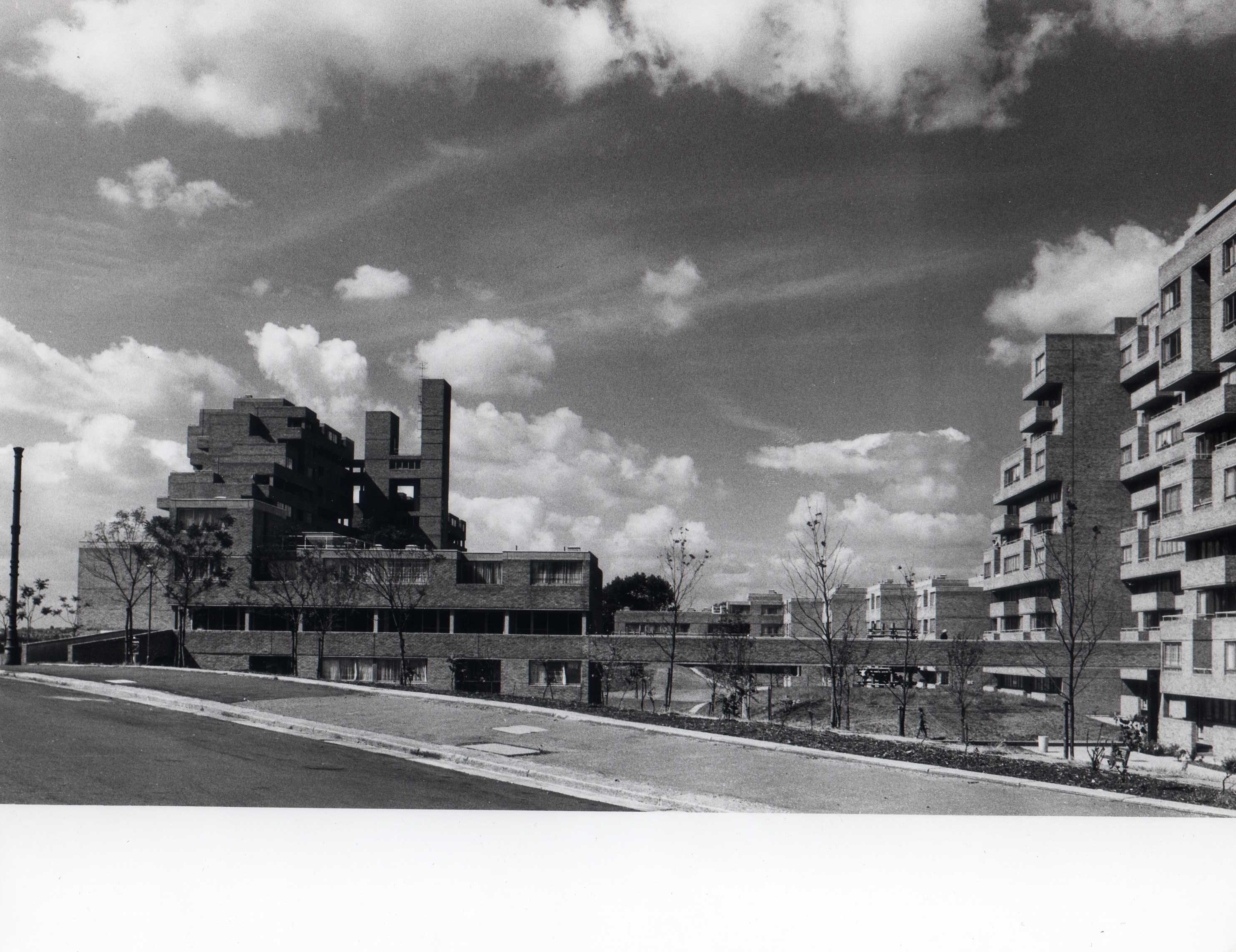 Dawsons Heights, 1973, viewed from Overhill Road. Photographer, Robert Kirkman FSAI.